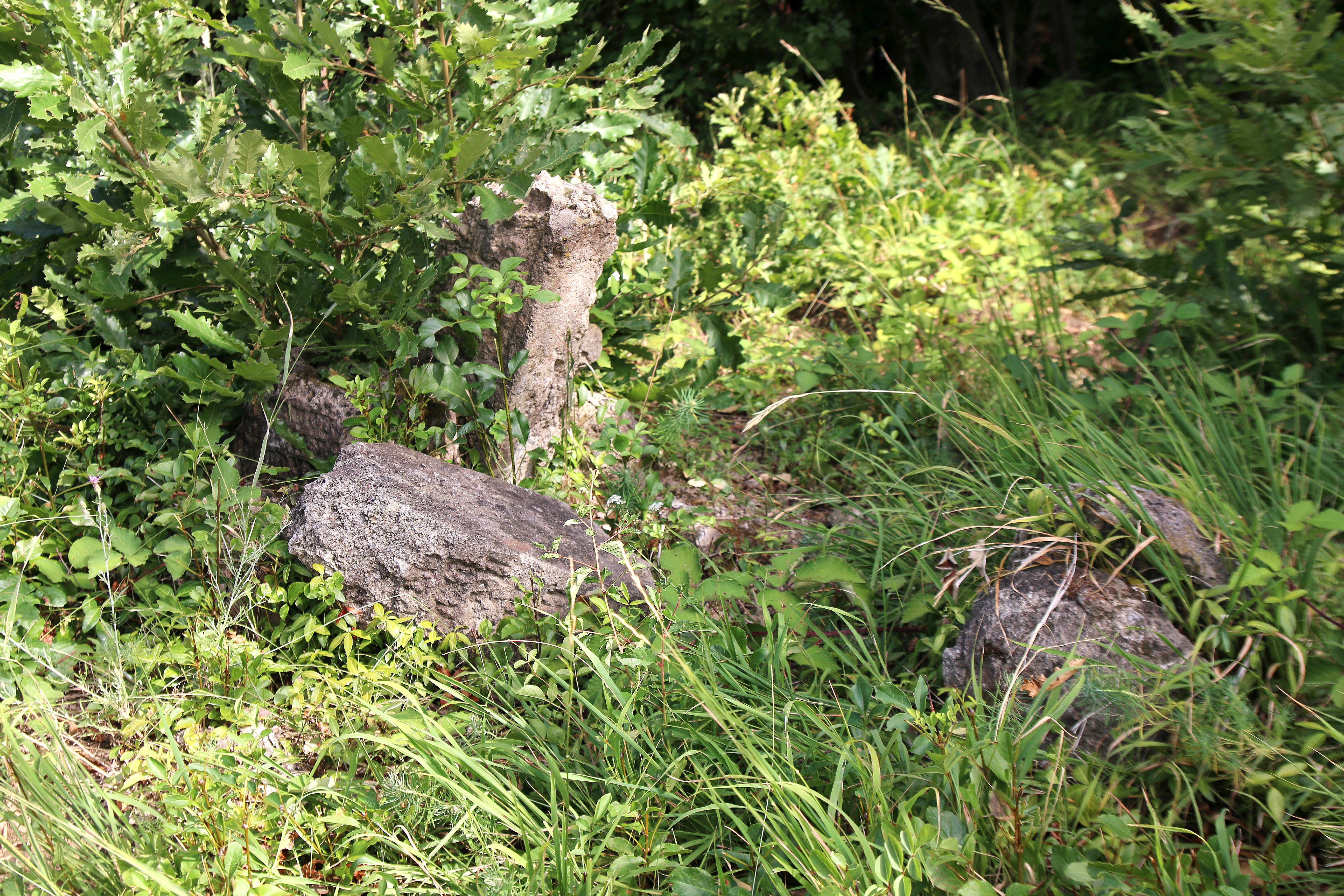 Roadside tombstones erected in memory of Cedomir and Dragoslav Savkovic, located in the village of Silopaj (the municipality of Gornji Milanovac), Serbia